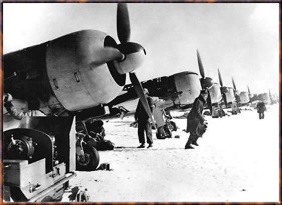 On the eastern front, 1941 winter